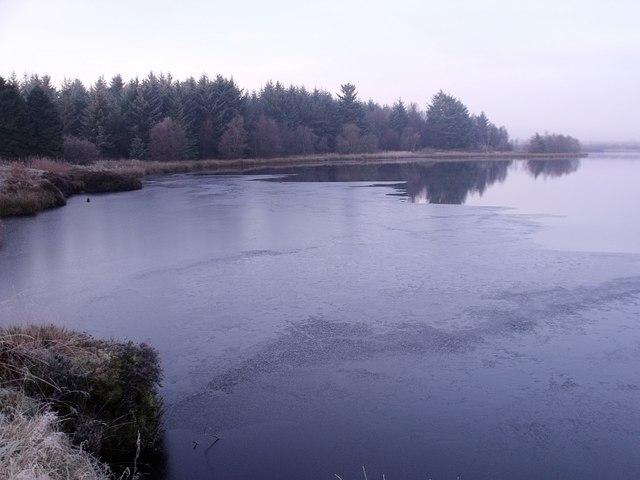 West Fannyside Loch, Fannyside The ice is creeping from the western bank. This is the larger of two such named Fannyside lochs, the one to the east has been shrinking in size for decades.